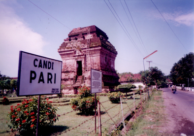 Pari temple, Sidoarjo county, East Java, Indonesia